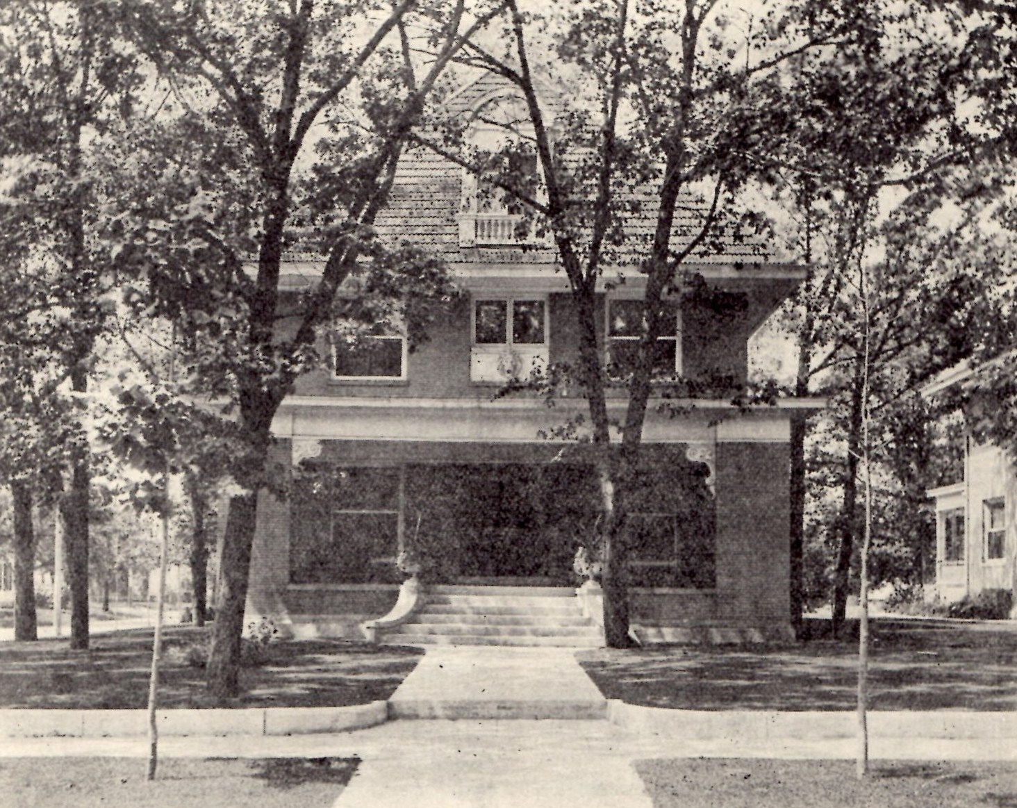 Period photograph of the William Weber house, Blue Island, IL, designed by George Washington Maher in 1898